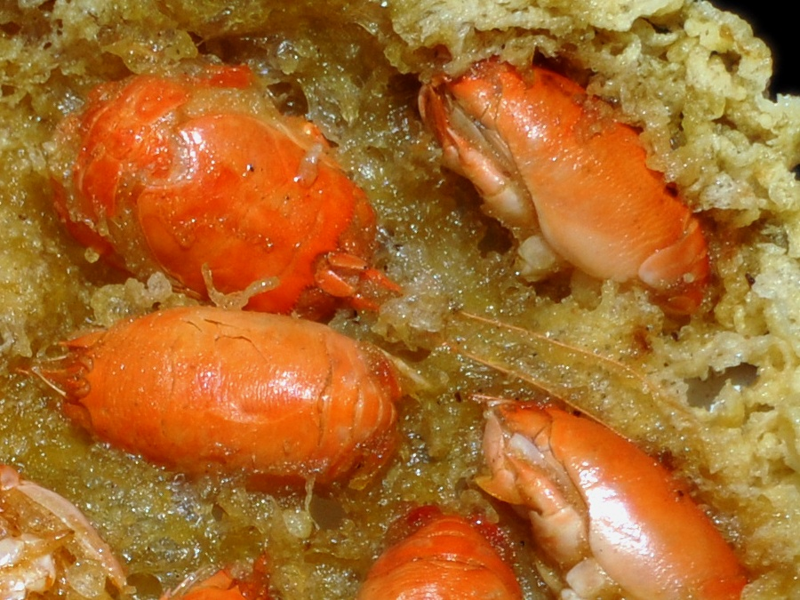 Mole crabs, Albunea symmysta (upper left, surrounded by Emerita species); cooked as rice crackers in Cilacap southern coast of Central Java, Indonesia.